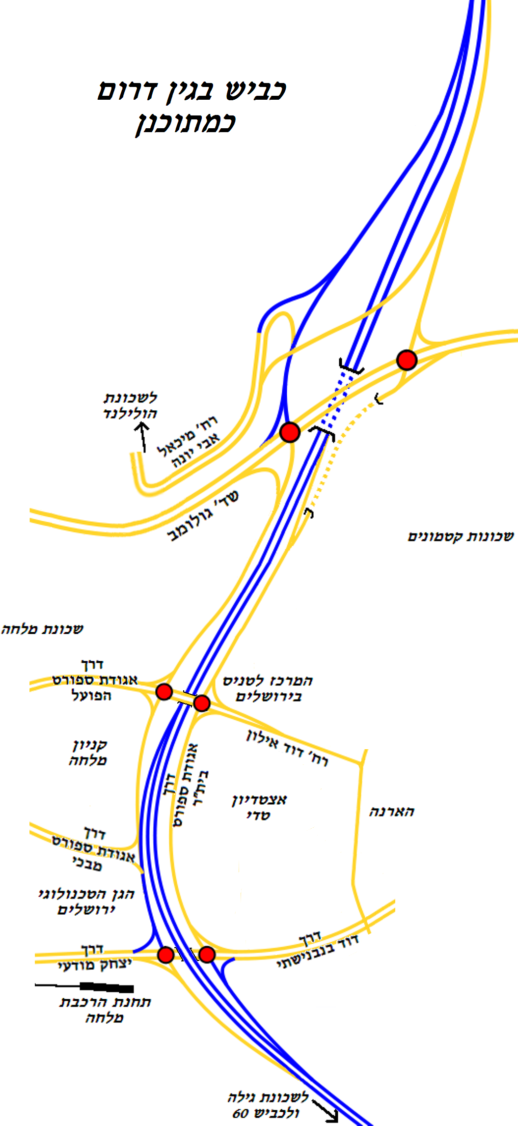 Junctions of Israel Highway 50 with Golumb Blvd. and local stteets surrounding Malha Mall, Teddy Stadium, Jerusalem Arena (u.c.), Jerusalem Technology Park and Malha Train Station.